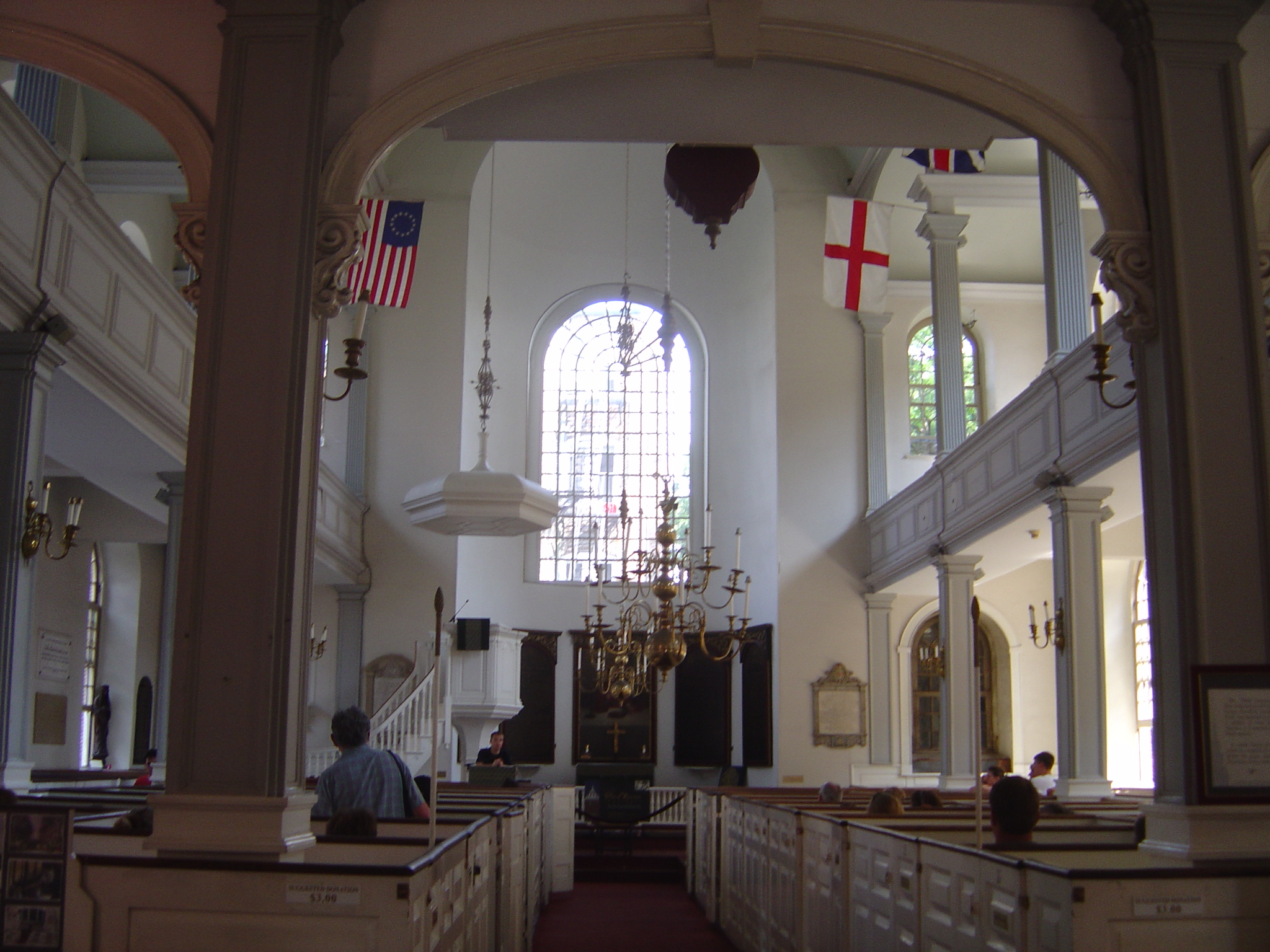 Photograph of the interior of the Old North Church, Boston, MA. Photo taken by me with a Sony Cybershot digital camera, in July 2006.